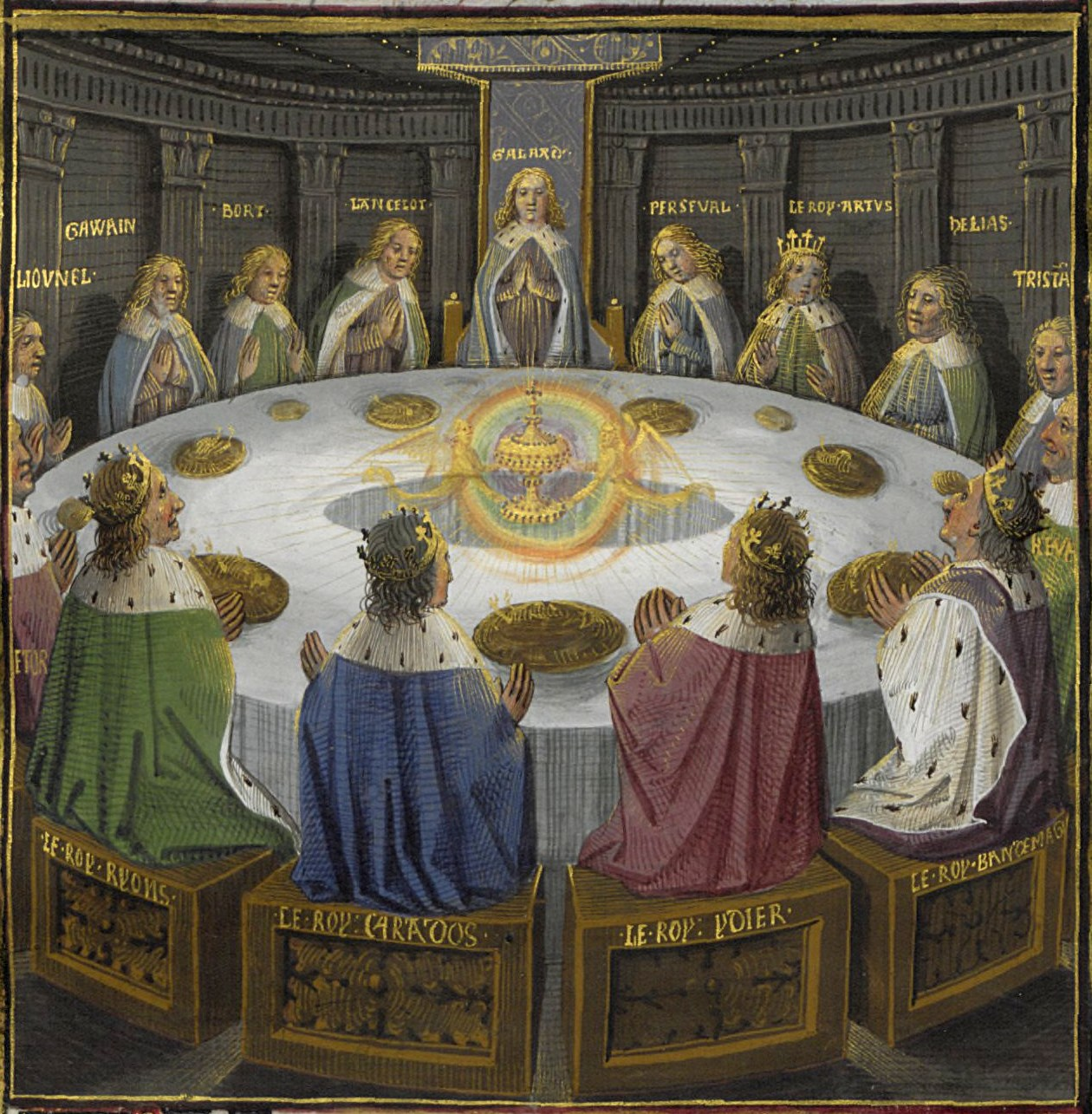 King Arthur's knights, gathered at the Round Table to celebrate the Pentecost, see a vision of the Holy Grail. The Grail appears as a veiled ciborium, made of gold and decorated with jewels, held by two angels. From folio 610v in BNF Fr 116, ordered by Jacques d'Armagnac. Top Row (left to right): "Liovnel" (Lionel), Gawain, "Bort" (Bors), Lancelot, "Galard" (Galahad) in the Siege Perilous, "Perseval" (Percival), "Le Roy Artvs" (King Arthur of Britain), "Helias" (Elyan), "Tristrã" (Tristan) Bottom Row (left to right): "Etor" (Ector), "Le Roy Ryons" (King Rience of Ireland and North Wales), "Le Roy Carados" (King Caradoc Strongarm of Gwent), "Le Roy Ydier" (King Yder=Sir Edern), "Le Roy Bancemag" (King Bagdemagus of Gore), "Heva" or "Kev" (Erec, Kay, or Hoël=Hovelius)